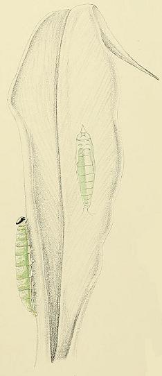 Frederic Moore The Lepidoptera of Ceylon Plate 67 Warning some taxa/names may be misidentified/misapplied or placed in a different genus Fig. 3, 3 a, b Plesioneura Alysos = Notocrypta feisthamelii alysos (Moore, [1866])